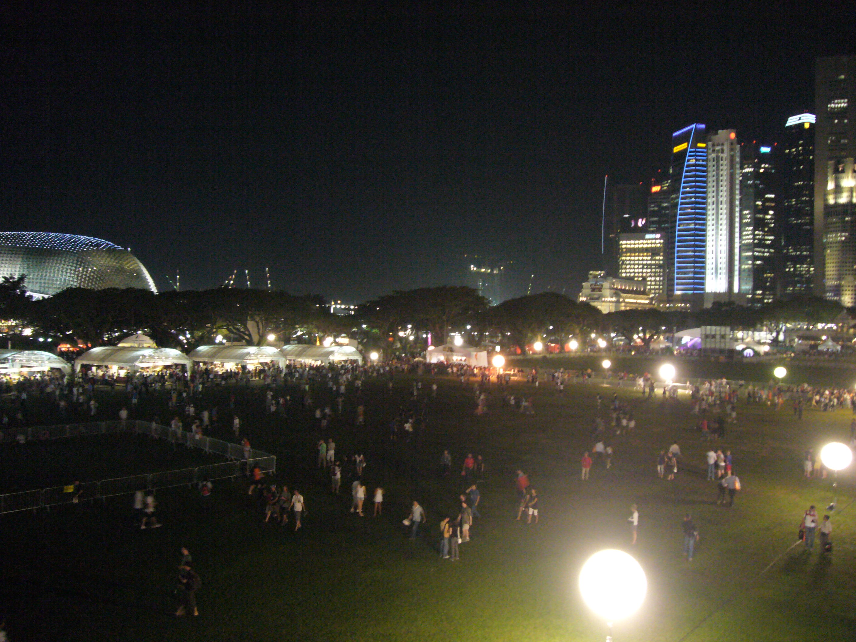 Marina Bay Street Circuit circuit park at padang area